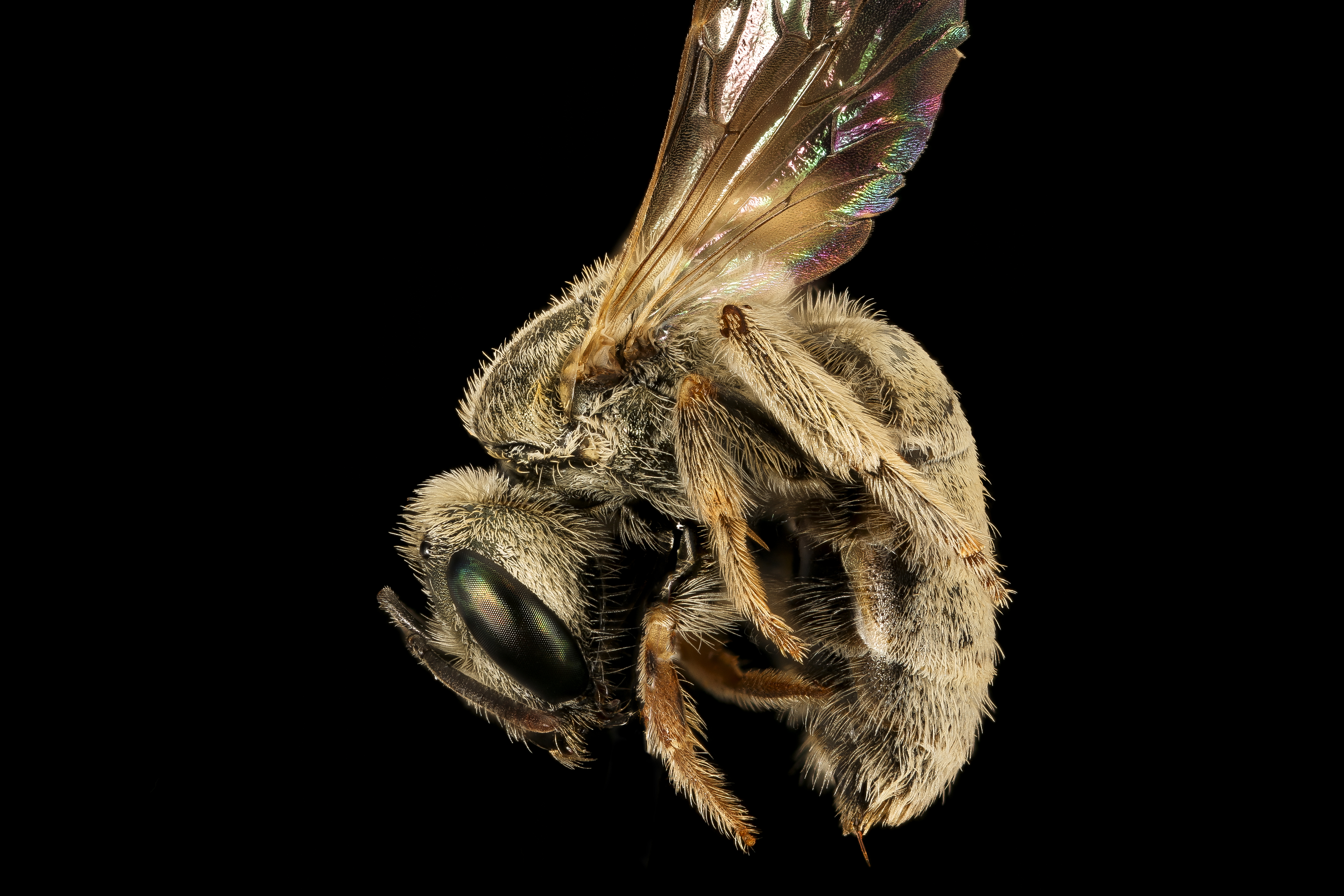 A relatively new invader to North America. Unlike most of the other invasive bees, this is a ground nester, most of the others nest in holes and likely come over as nest stowaways in shipping containers and dunnage. The first record for this species was downtown Philadelphia right at the rotary in front of the Metropolitan Museum of Art where Rocky ran up the steps. Halictus tectus is a bee of the most desparate of man-made environments. It loves construction sites, playgrounds, and human wastelands of all kinds. It lives in the Mid-Atlantic right now but will sure spread throughout the continent. Collected by Tim McMahon at a horse stables in Montgomery County, MD. 21:21, 7 August 2016 (UTC)21:21, 7 August 2016 (UTC) 0 21:21, 7 August 2016 (UTC)21:21, 7 August 2016 (UTC) All photographs are public domain, feel free to download and use as you wish. Photography Information: Canon Mark II 5D, Zerene Stacker, Stackshot Sled, 65mm Canon MP-E 1-5X macro lens, Twin Macro Flash in Styrofoam Cooler, F5.0, ISO 100, Shutter Speed 200 Beauty is truth, truth beauty - that is all Ye know on earth and all ye need to know " Ode on a Grecian Urn" John Keats You can also follow us on Instagram - account = USGSBIML Want some Useful Links to the Techniques We Use? Well now here you go Citizen: Art Photo Book: Bees: An Up-Close Look at Pollinators Around the World Basic USGSBIML set up: USGSBIML Photoshopping Technique: Note that we now have added using the burn tool at 50% opacity set to shadows to clean up the halos that bleed into the black background from "hot" color sections of the picture. PDF of Basic USGSBIML Photography Set Up: ftp://ftpext.usgs.gov/pub/er/md/laurel/Droege/How%20to%20Take%20MacroPhotographs%20of%20Insects%20BIML%20Lab2.pdf Google Hangout Demonstration of Techniques: or Excellent Technical Form on Stacking: Contact information: Sam Droege 301 497 5840